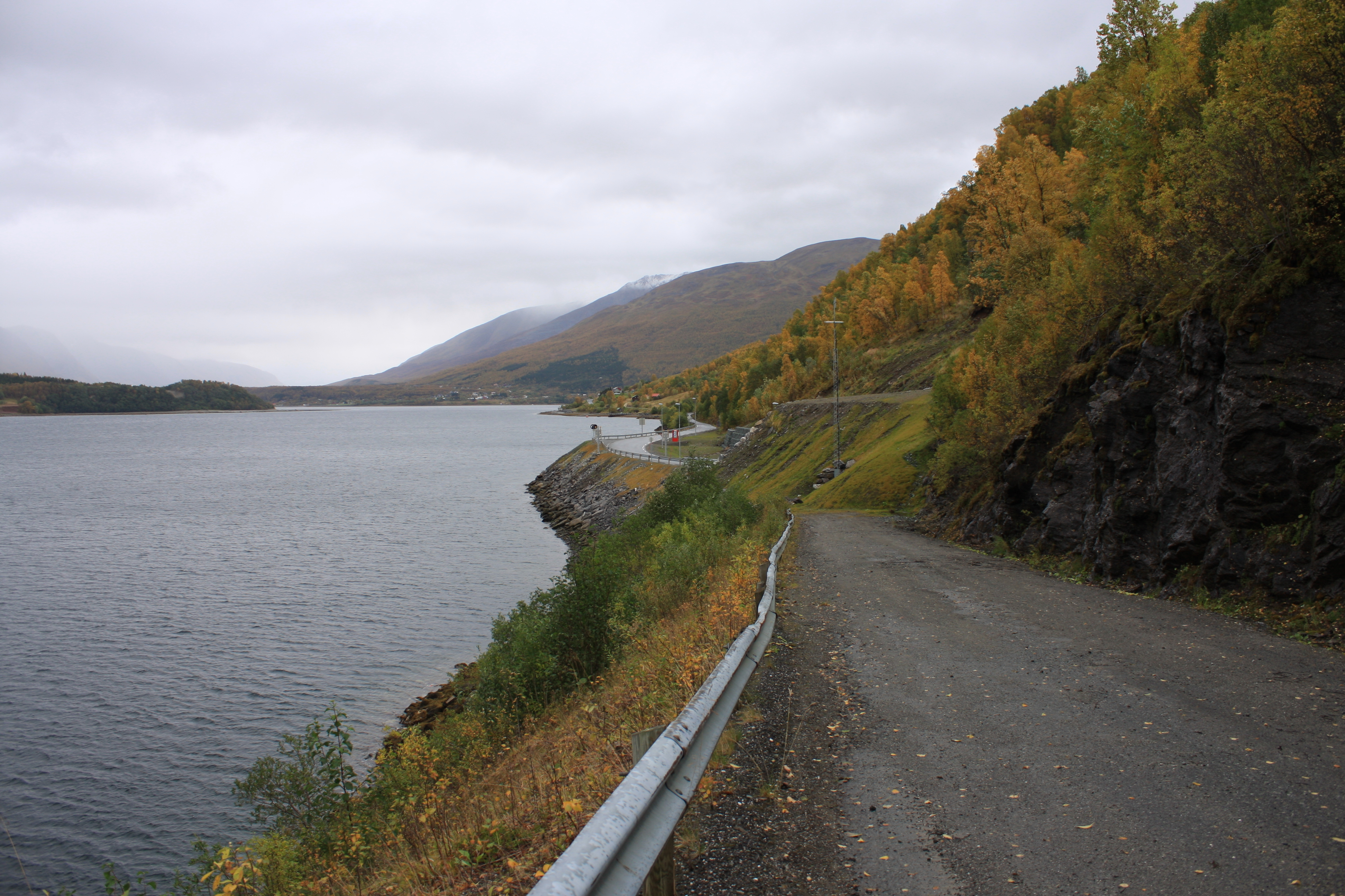 The old road that the tunnel (Isbergantunnelen) replaced.